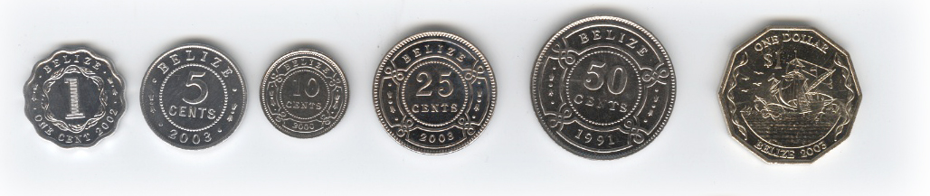 Belizean coins - reverse